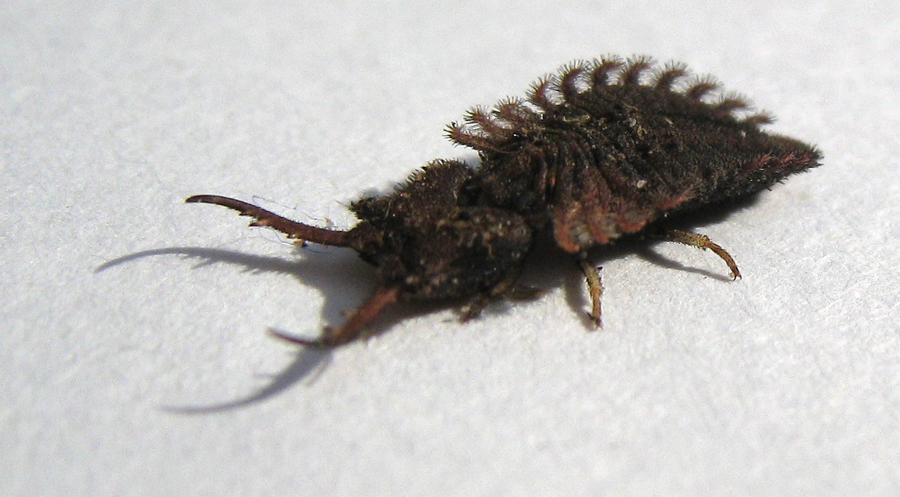 Larva of an owl-fly (Suhpalacsa). Wedderburn NSW Australia, May 2008.